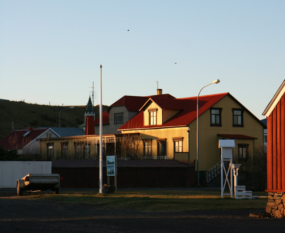 Houses in Blönduós, November 21 12:55 Iceland, November 2007 Photo by me user debivort (or friend, with permission given to upload and license freely).